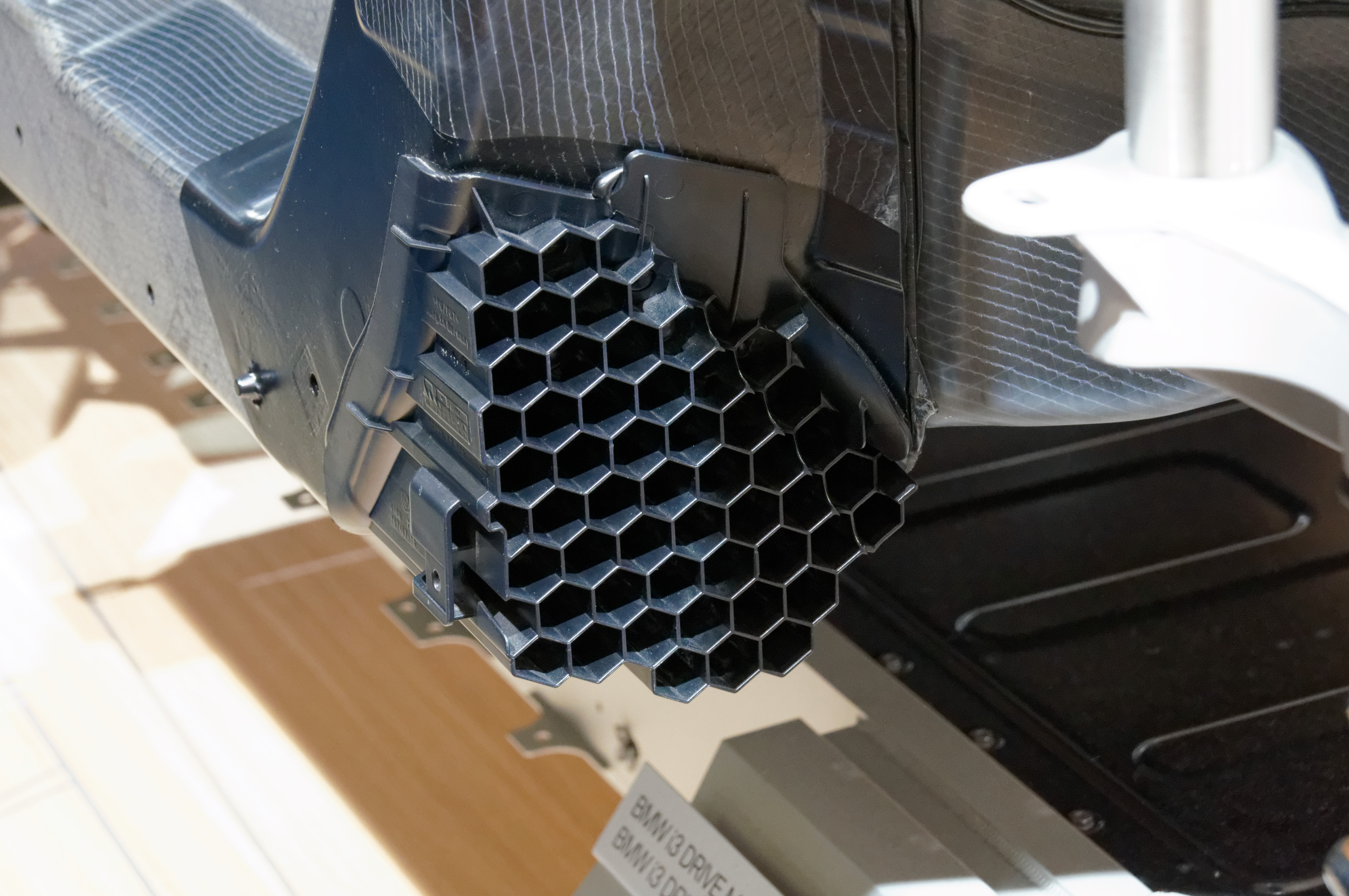 2013 IAA BMW i3 Honeycomb structure.